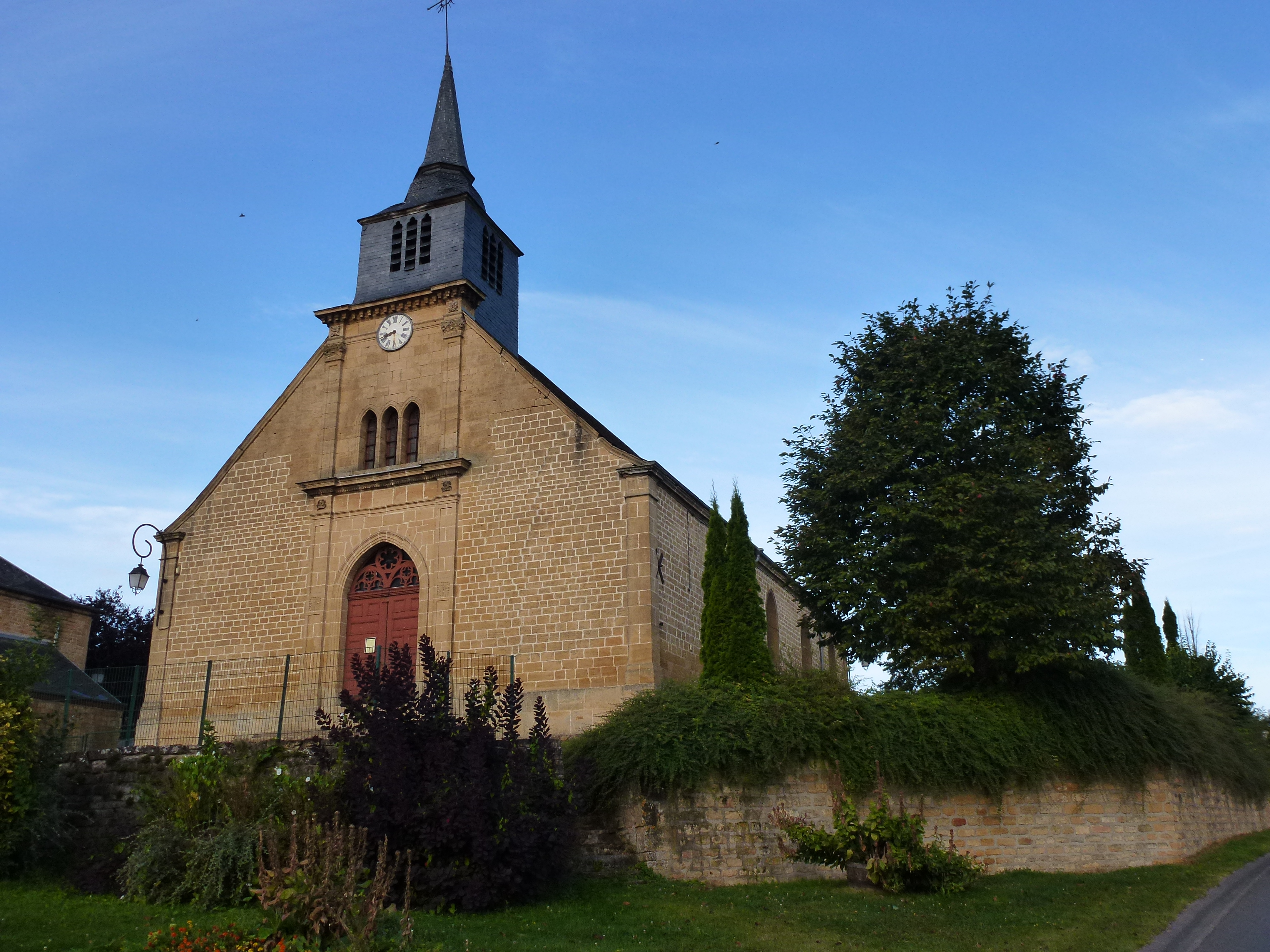 Belval (Ardennes) église, façade